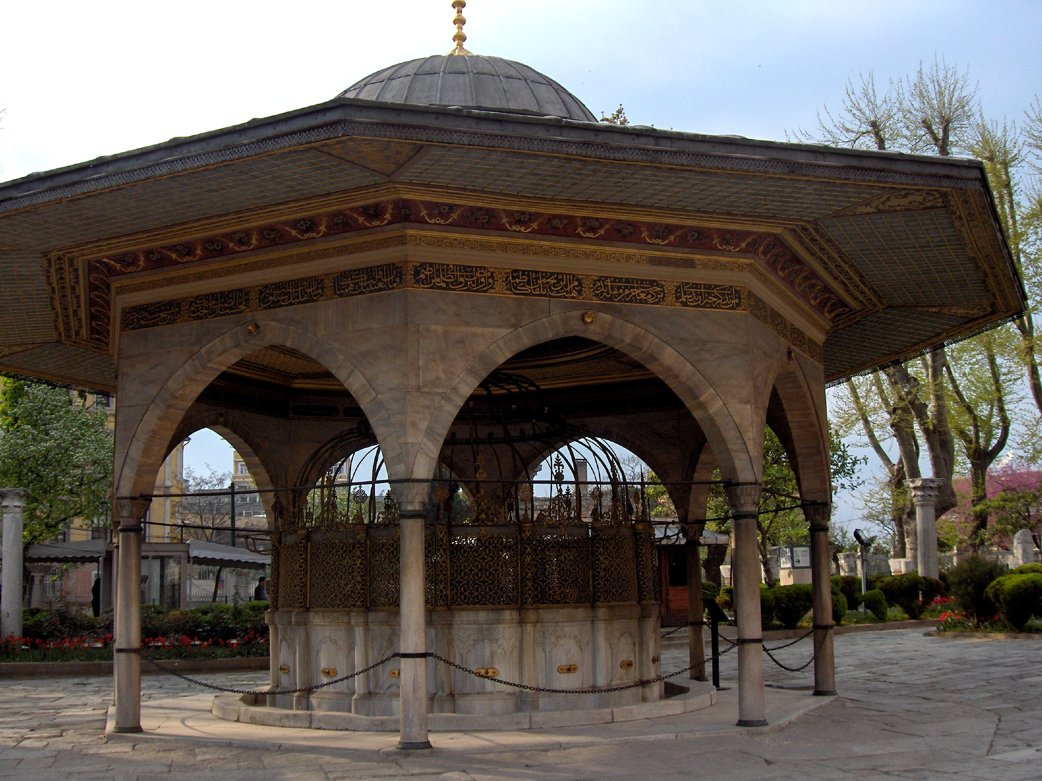 Hagia Sophia ; Şadirvan (fountain for ritual ablutions); Istanbul, Turkey